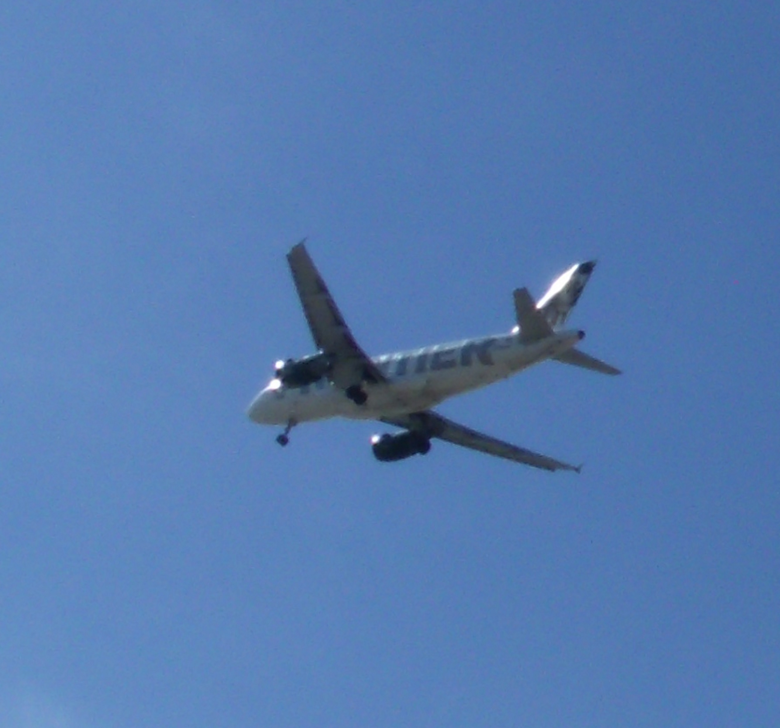 A Frontier Airlines plane lands at Phoenix Sky Harbor International Airport in Phoenix, Arizona, USA.